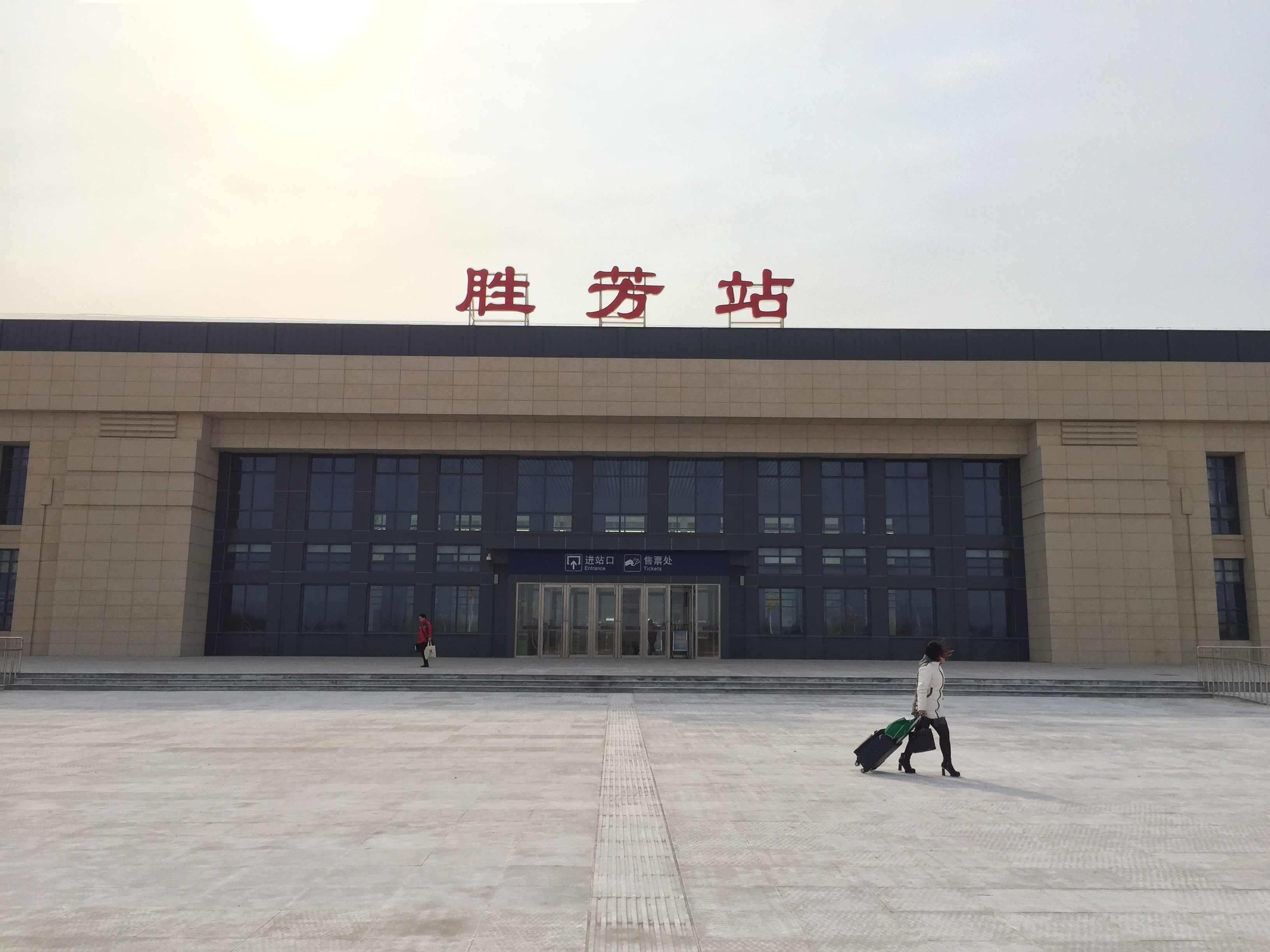 The trains are not so much here, and the surroundings are nearly nothing.